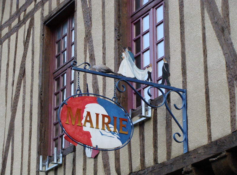 Mirepoix Town Hall, Ariège, France